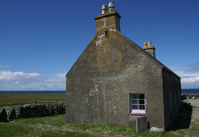 Arnol Blackhouse, Arnol, Lewis, Outer Hebrides, Scotland - white house no. 39